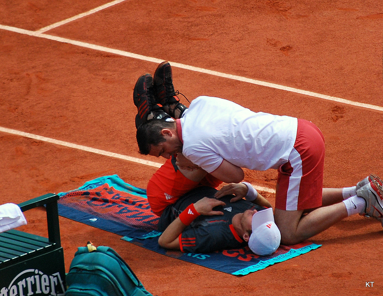 Andy Murray receives treatment for his back during his 2nd round match with Jarkko Nieminen. Murray won 1-6, 6-4, 6-1, 6-2. Day 5 of Roland Garros 2012.